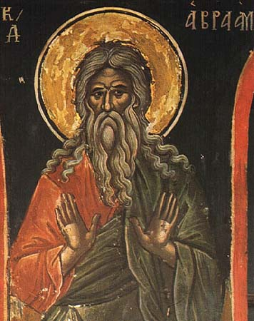 Saint Patriarch Abraham